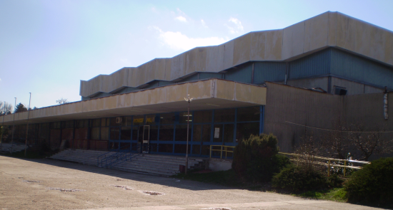 Sports hall Mladost